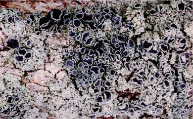 Apothecia of Physcia millegrana